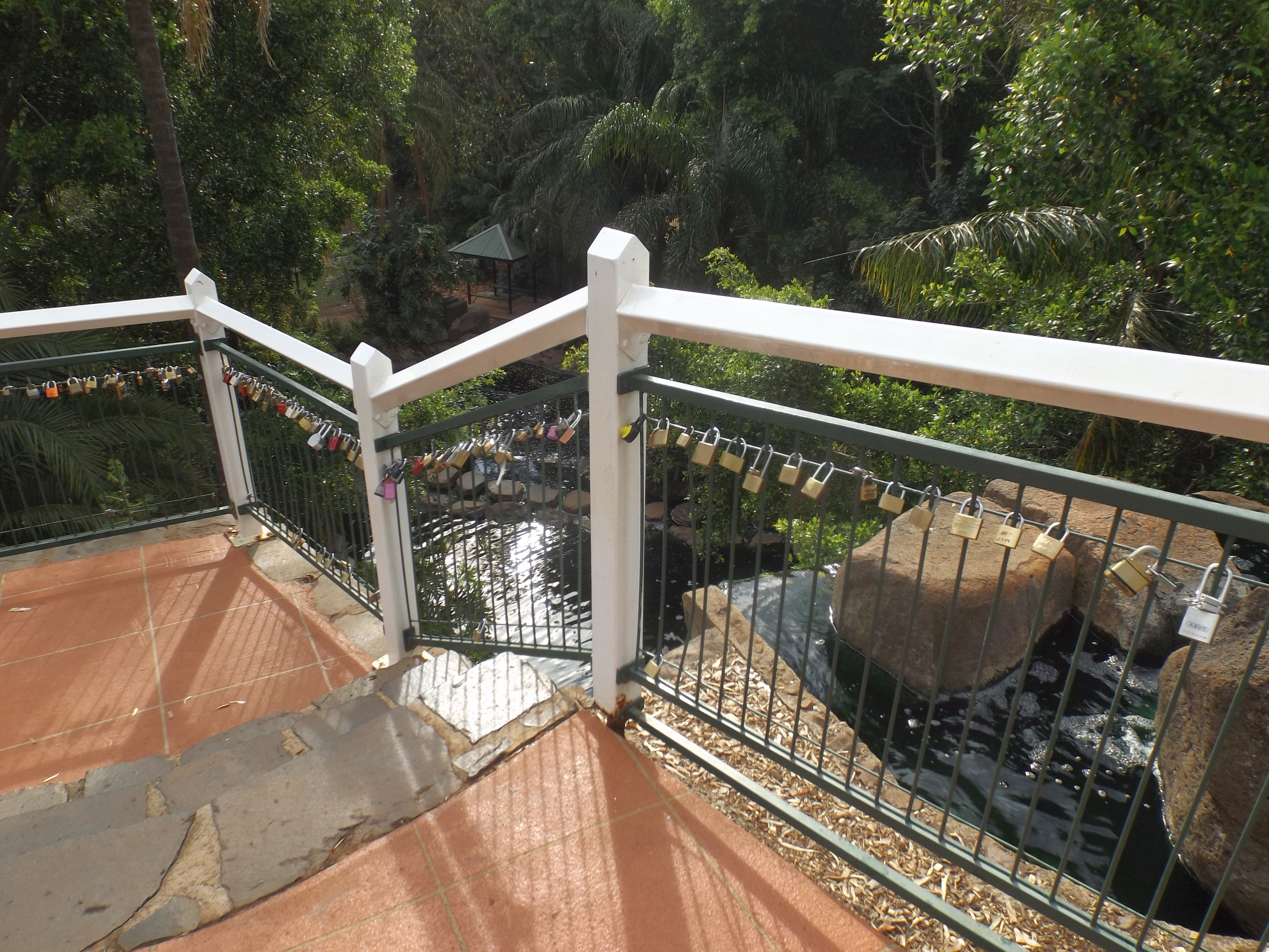 Photo of dedicaton locks at the top of a man-made waterfall at Picnic Point in Rangeville, Toowoomba, Queensland, Australia.